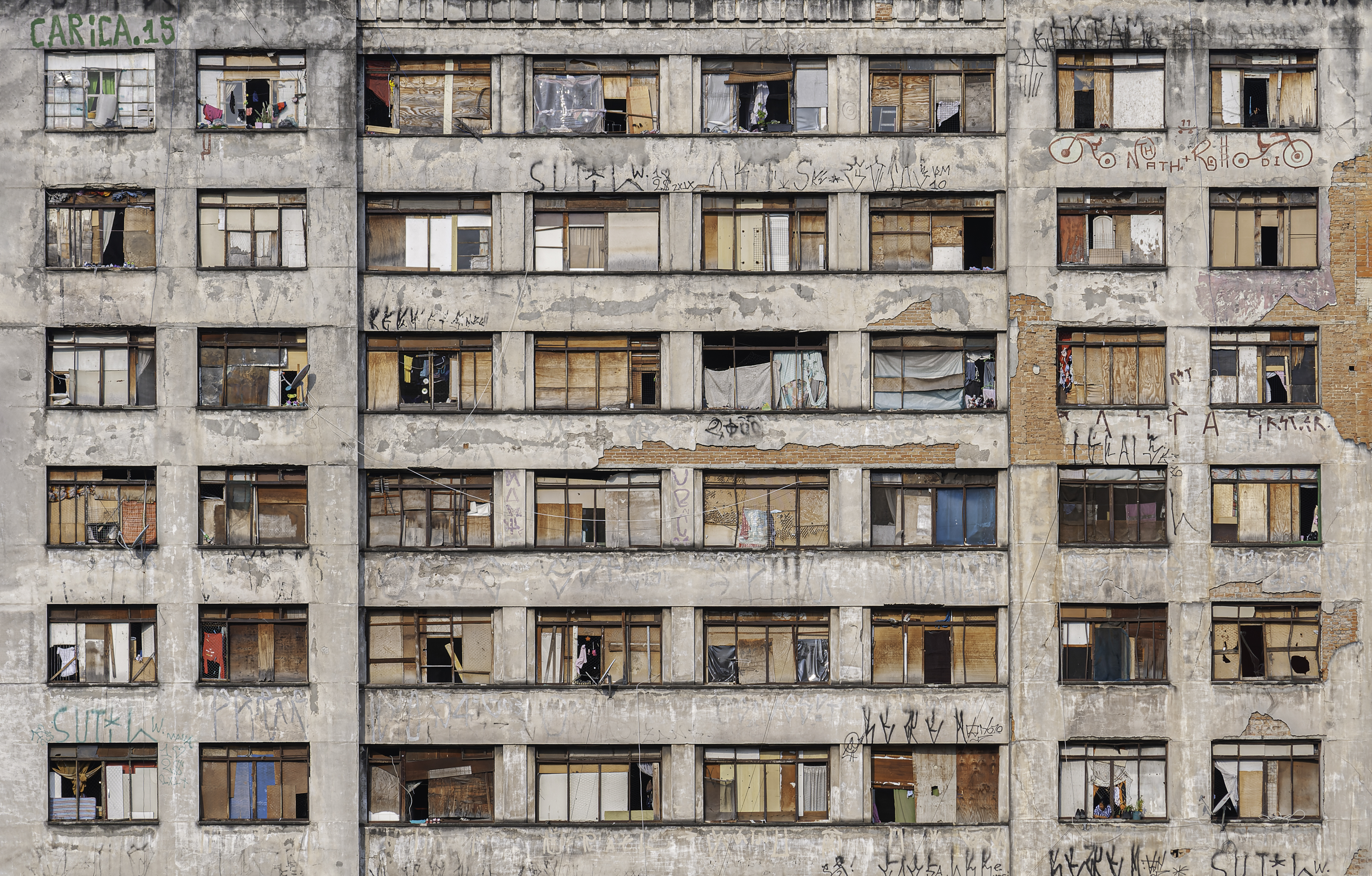 At number 911 of Prestes Maia Avenue in São Paulo, Brazil, 378 families live in the second largest vertical occupation of Latin America. Old building of the National Textiles Company (Companhia Nacional de Tecidos), on Luz metro station, has over a thousand people today; only Torre de David in Venezuela has more occupants